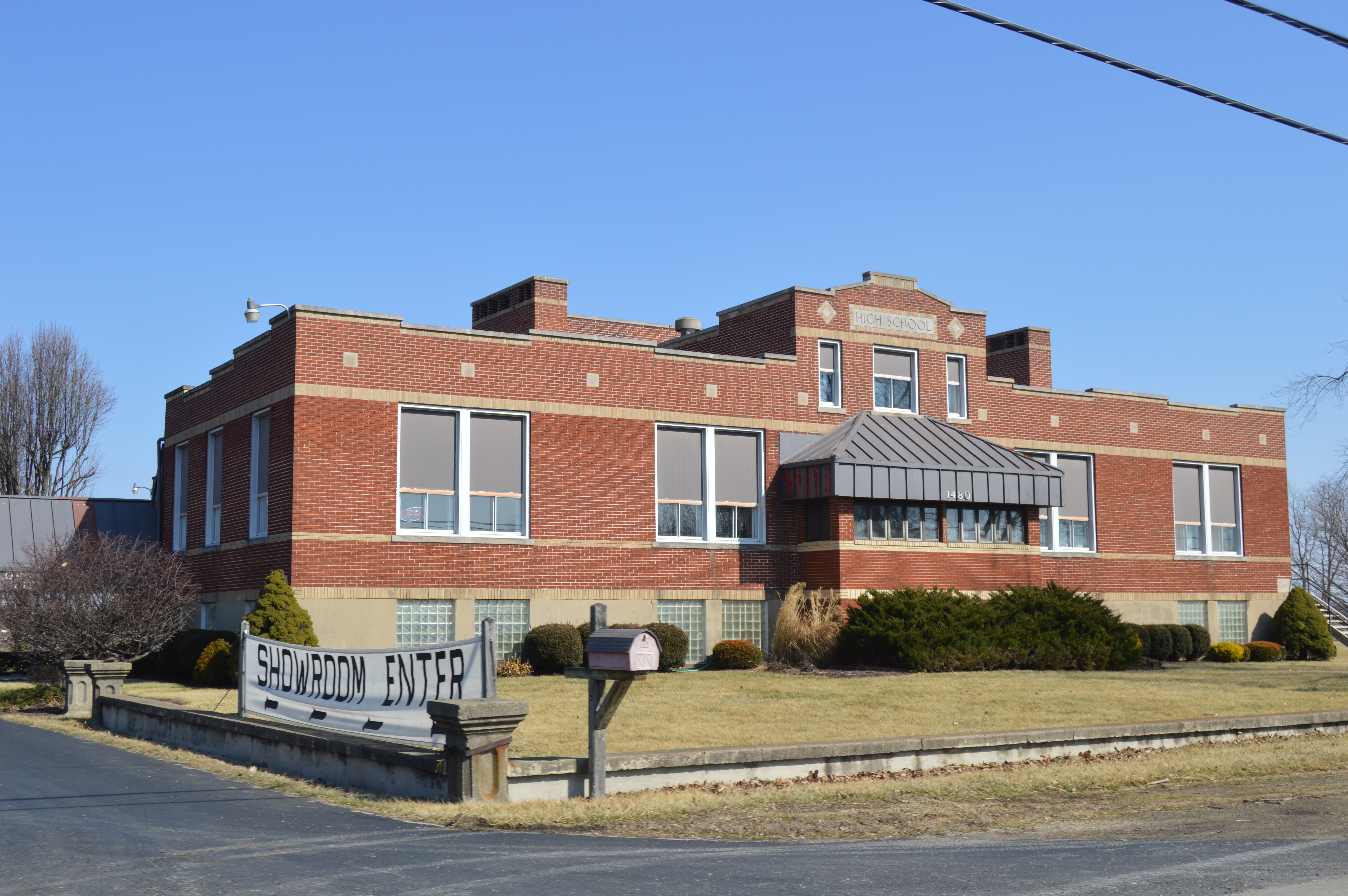 Front of the former Spring Valley Township High School (now a beanbag chair factory), located at 1480 W. Spring Valley Paintersville Road east of Spring Valley in Spring Valley Township, Greene County, Ohio, United States. The 1918 History of Greene County by M.A. Broadstone reports that efforts to build a township high school were ongoing but had not yet come to fruition; the date stone at far right seems to indicate that it was built in 1924.